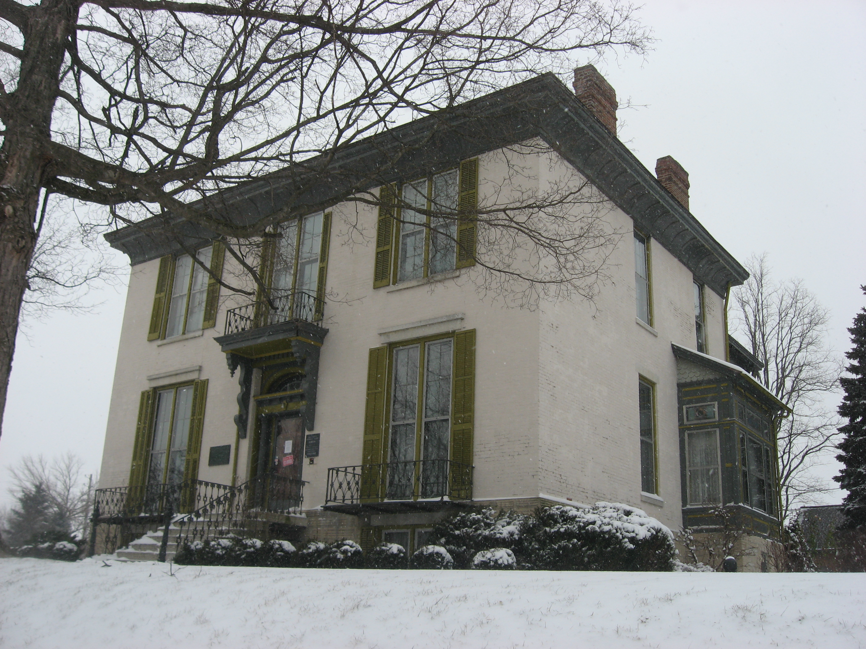 Front and eastern side of the Jerolaman-Long House, located at 1004 E. Market Street in Logansport, Indiana, United States. Built in 1853, it is listed on the National Register of Historic Places.